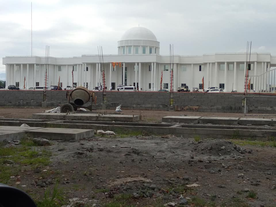 Opened in November 26, 2018 and the first day of office. Owned by Maguindanao Task Force Reconciliation and Unification under the Government of Maguindanao and it is public domain.